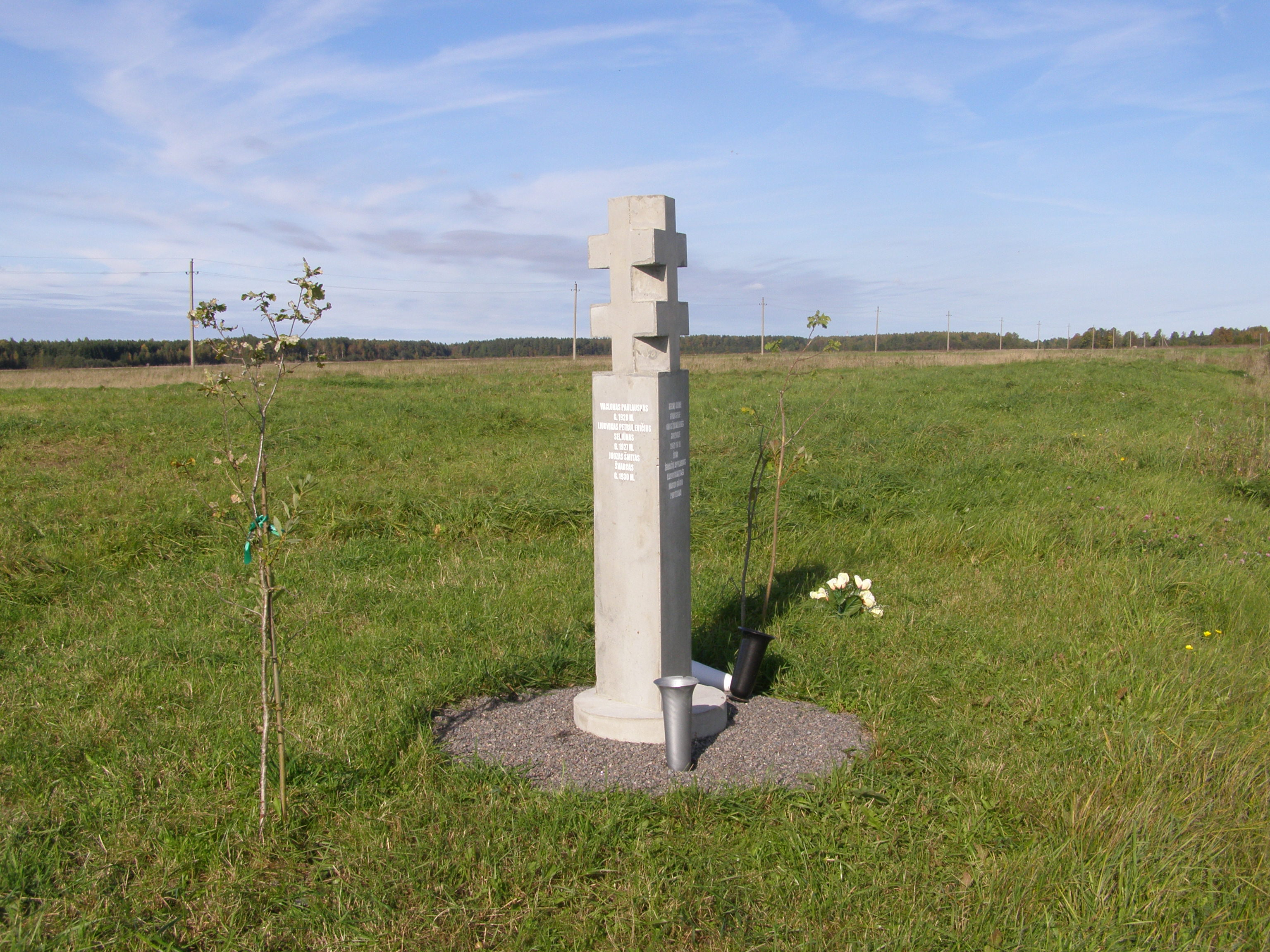 Kernai monument, Skuodas district, LithuaniaLietuvių: Kernų paminklas partizanams, Kretingos rajonas, Lietuva